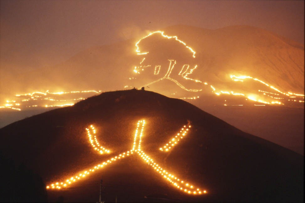 Kanji characters for flame burnt onto the mountainside.